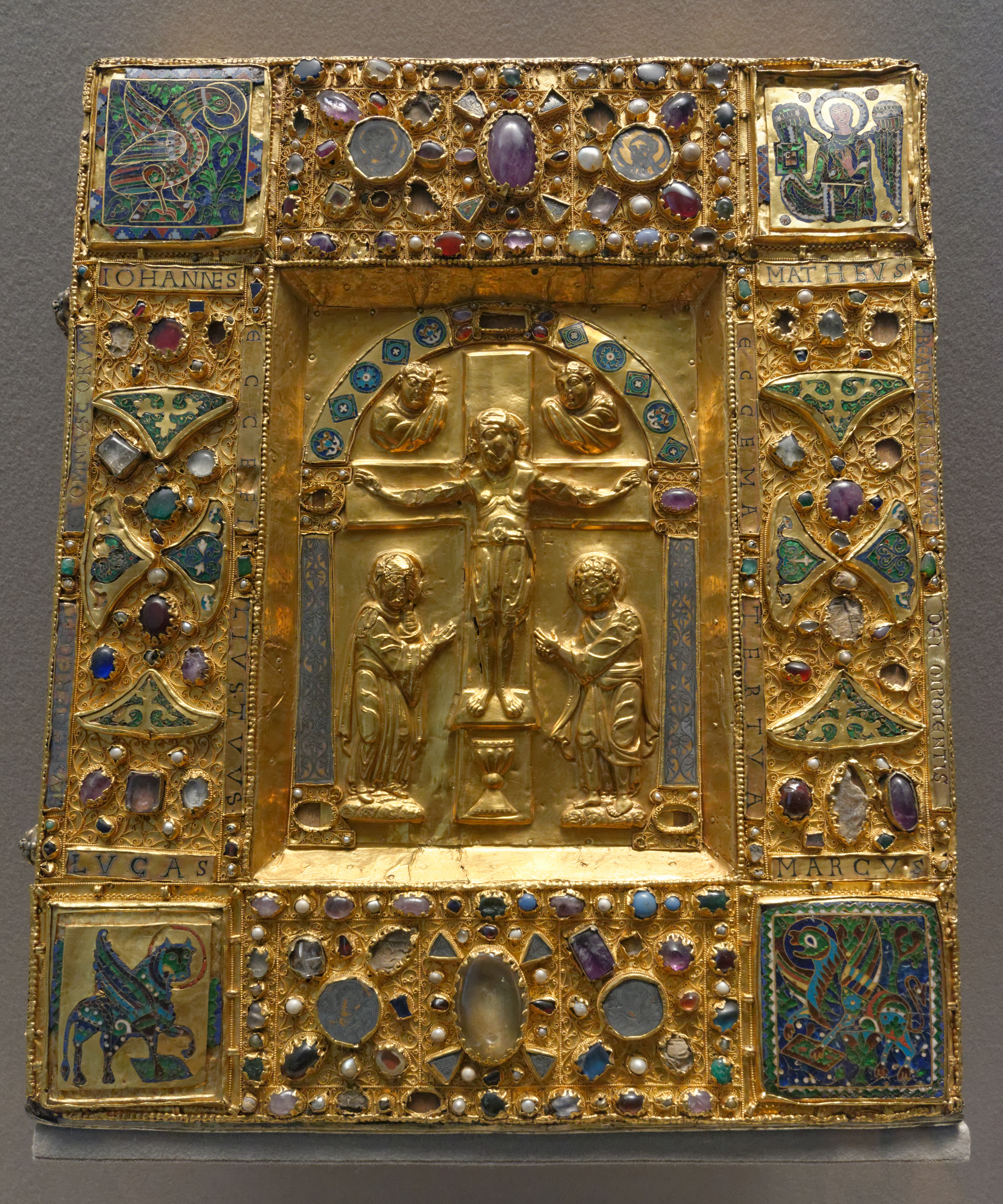 Reliquary box or book case, with the Crucifixion and symbols of the evangelists. Used to hold a Book of Oaths, now in the Royal Library in The Hague, Netherlands. Originally in the Treasury of the Basilica of Saint Servatius, Maastricht, Netherlands.